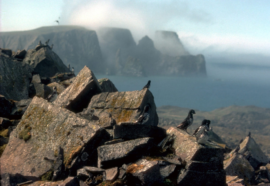 Least Auklets (Aethia pusilla) at "The Grotto", St. Matthew Island, Bering Sea, Alaska.